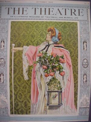 October 1902 cover of The Theatre featuring Mrs. Leslie Carter as Madame DuBarry